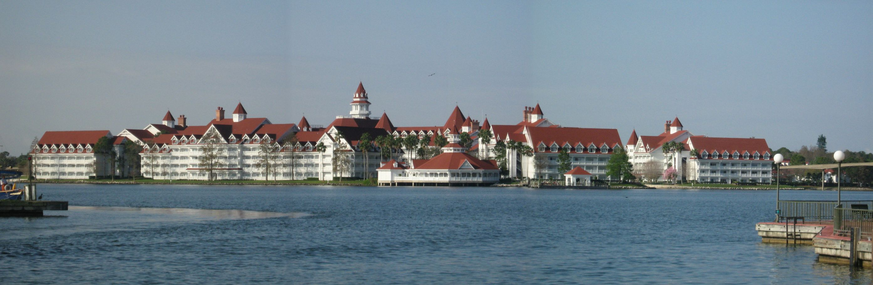 Grand Floridian Resort & Spa from The Magic Kingdom of Walt disney in Florida.